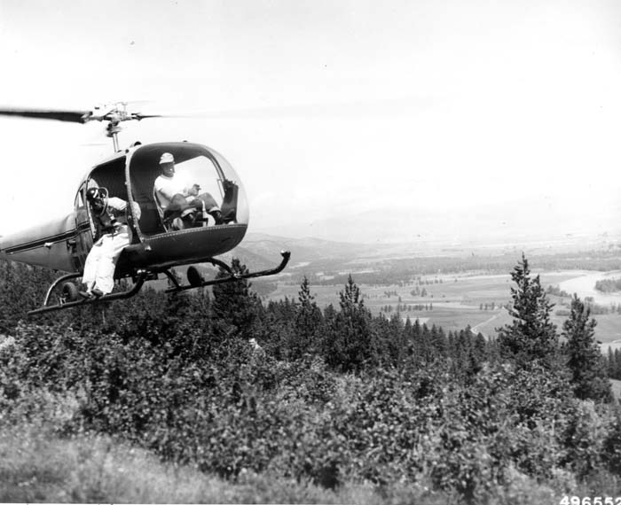 Trainee in jumping position, from helicopter, which is approximately six feet above ground. Lolo National Forest, Montana. September 1958